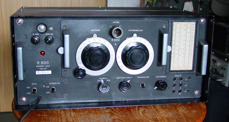 The R600A Metox, named after its manufacturer, was a pioneering high-frequency radar warning receiver (RWR) manufactured by a small French company in occupied Paris.